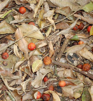 Ramon fruit on the forest floor. Image taken at the archaeological site El Pilar (Belize side)